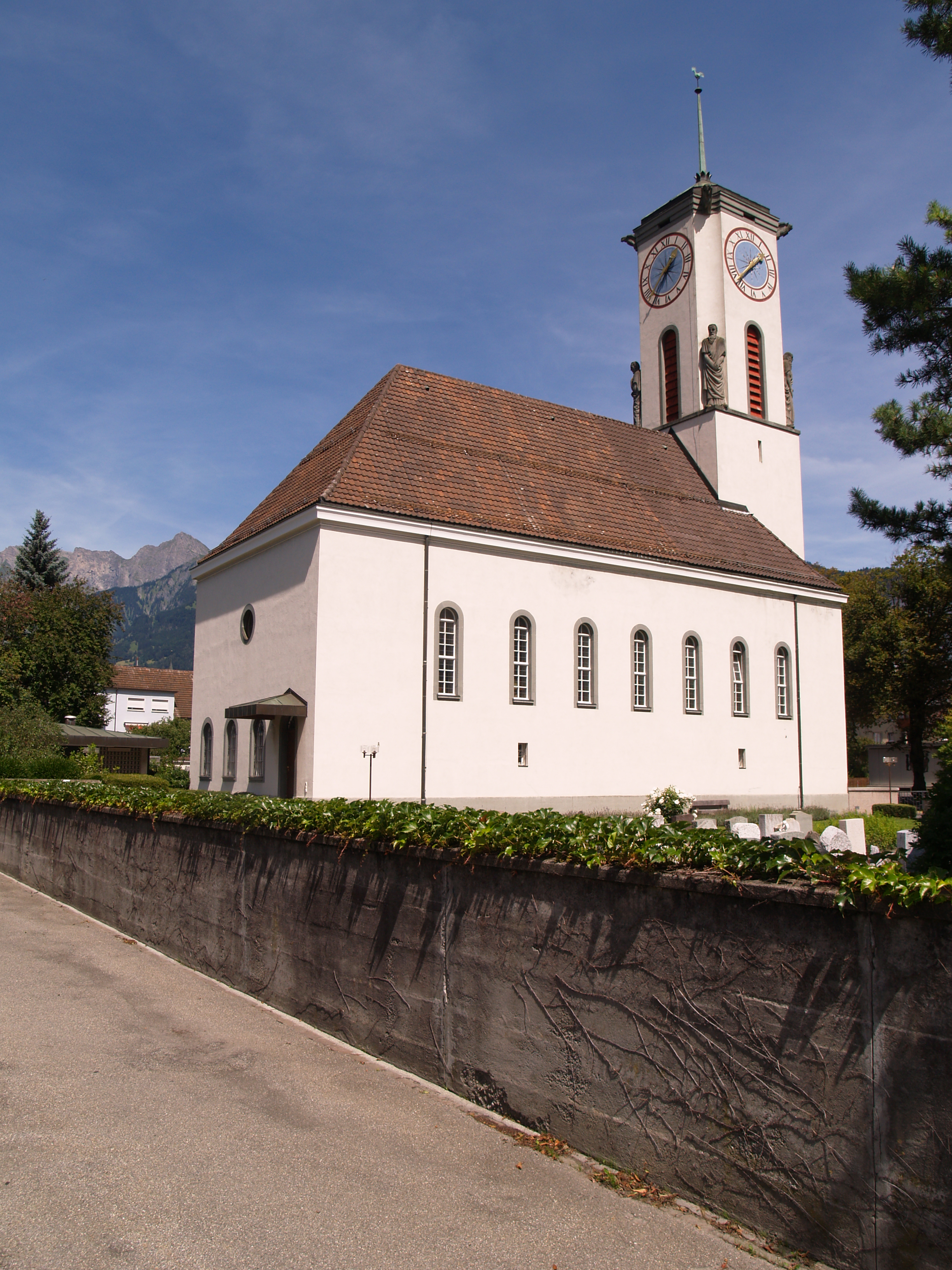 Reformed Church of Landquart